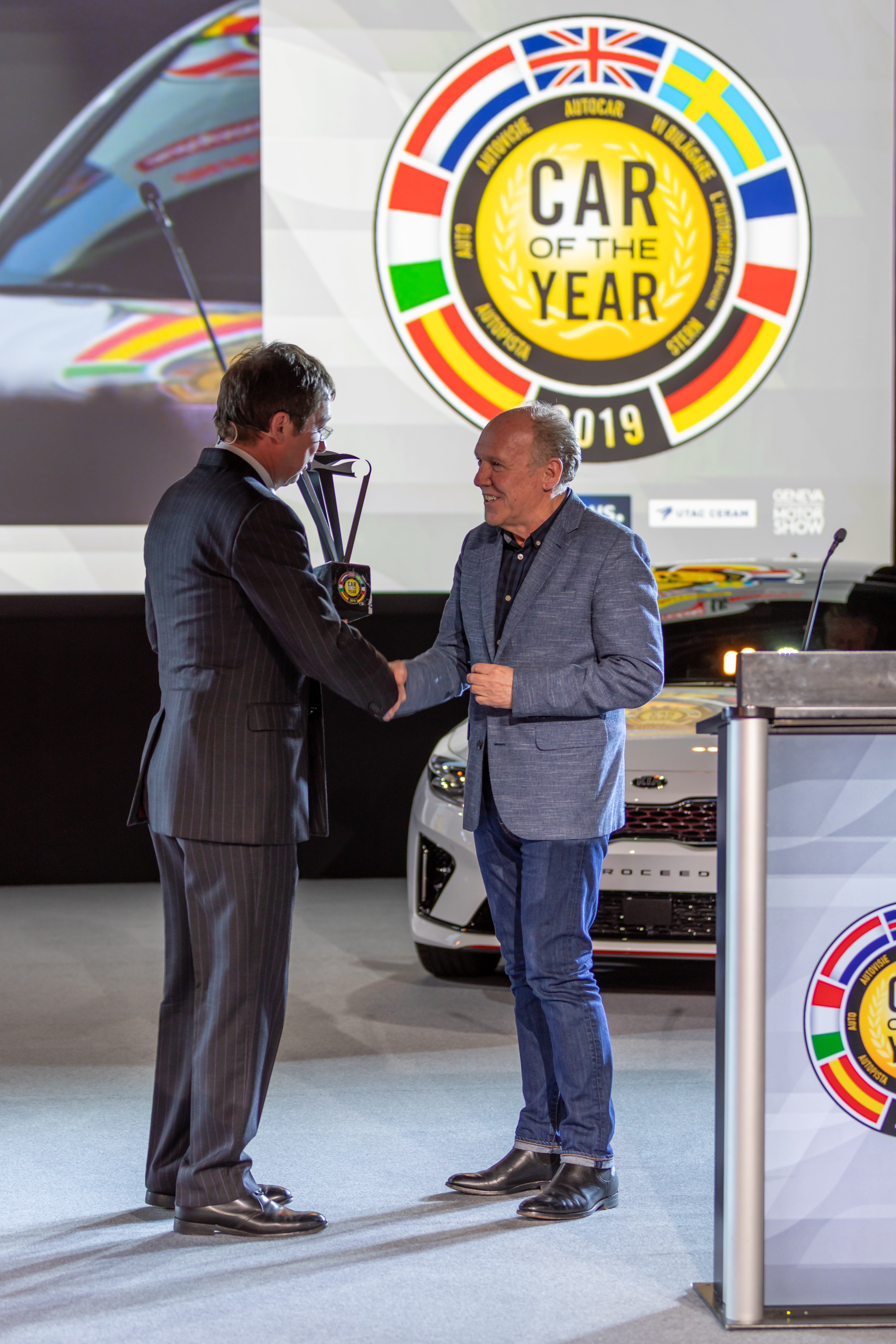 Car of the Year Award 2019